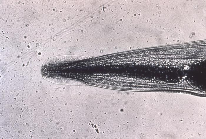 ID#: 5230 Description: This micrograph reveals the cephalic alae in the head region the nematode Enterobius vermicularis, or human pinworm. The time between ingestion of infective eggs to oviposition by the adult females is about 1 mo. The life span of the adults is about 2 mo. Gravid females migrate nocturnally outside the anus, and oviposit while crawling on the skin of the perianal area. Content Providers(s): CDC Creation Date: 1982 Copyright Restrictions: None - This image is in the public domain and thus free of any copyright restrictions. As a matter of courtesy we request that the content provider be credited and notified in any public or private usage of this image.